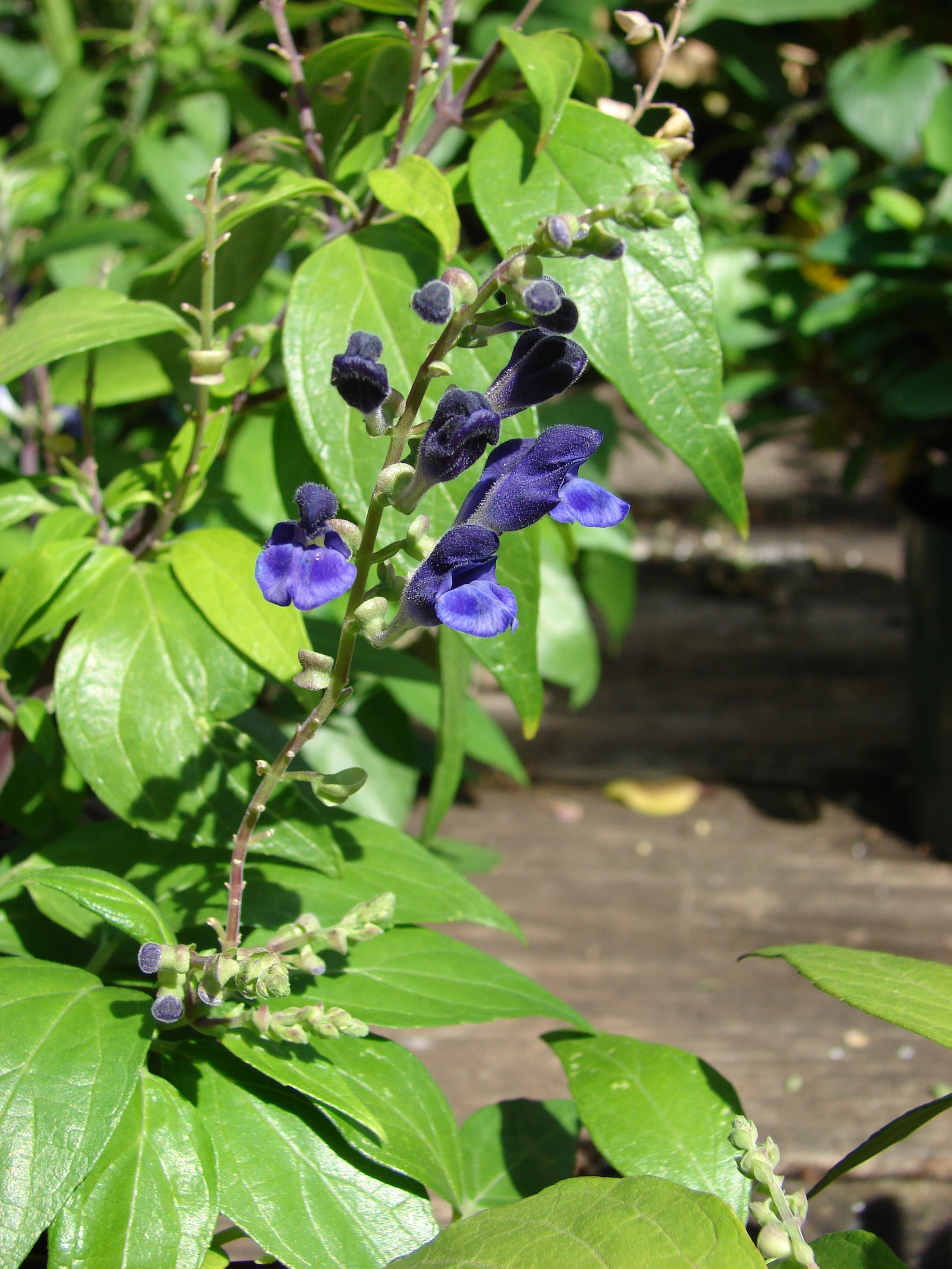 Scutellaria javanica (flowers and leaves). Location: Maui, Home Depot Nursery Kahului